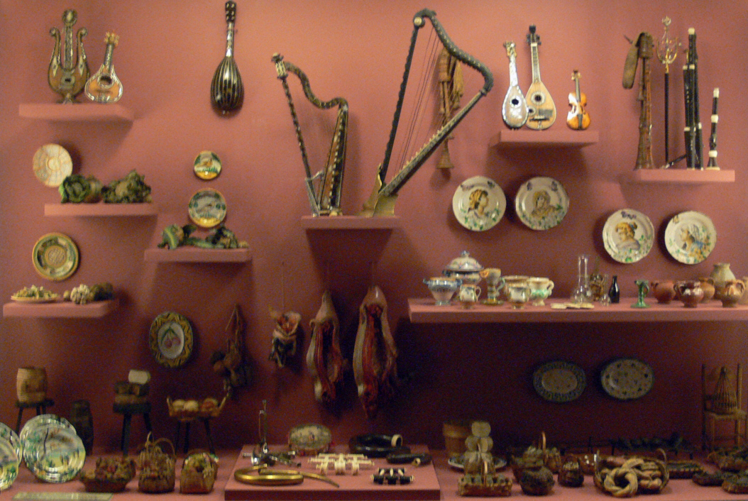 Finimenti (Nativity scene decorations), from Naples, 2nd half of the 18th century (musical instruments partly from France). Krippensammlung des Bayerischen Nationalmuseums (Collection of nativity scenes at the Bavarian National Museum), Munich, Germany.